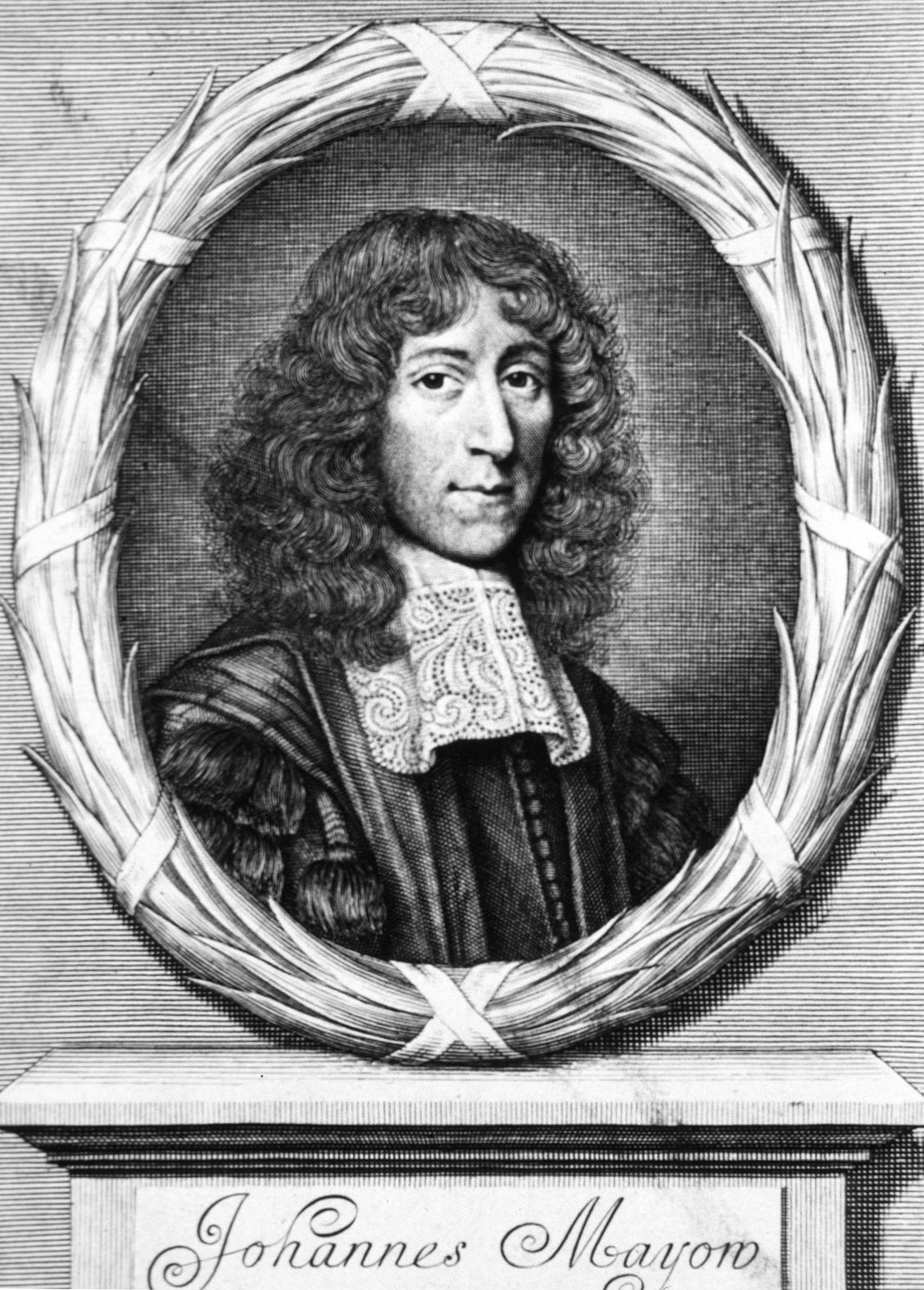 Engraving of John Mayow, the British scientist